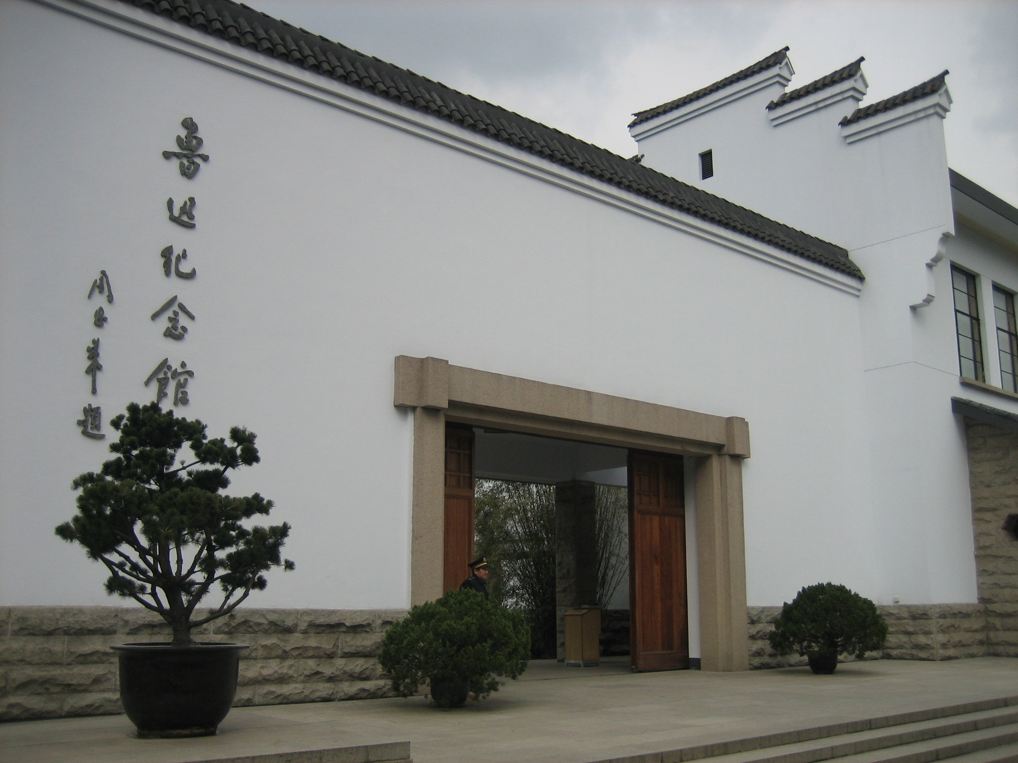 Shanghai Luxun Museum, Luxun park, Shanghai